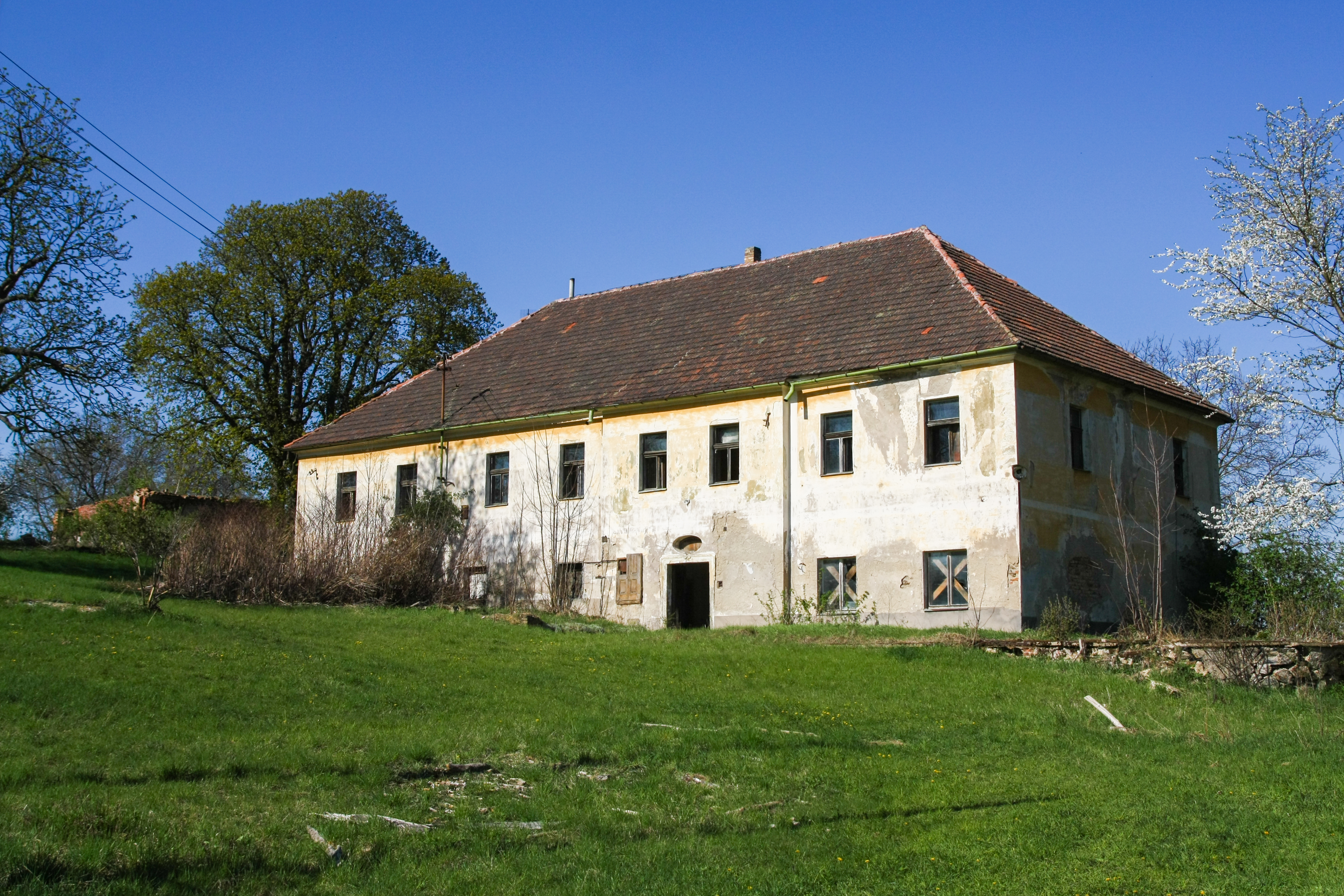 Castle in municipality Milhostice, Benešov District, Central Bohemian Region, Czechia